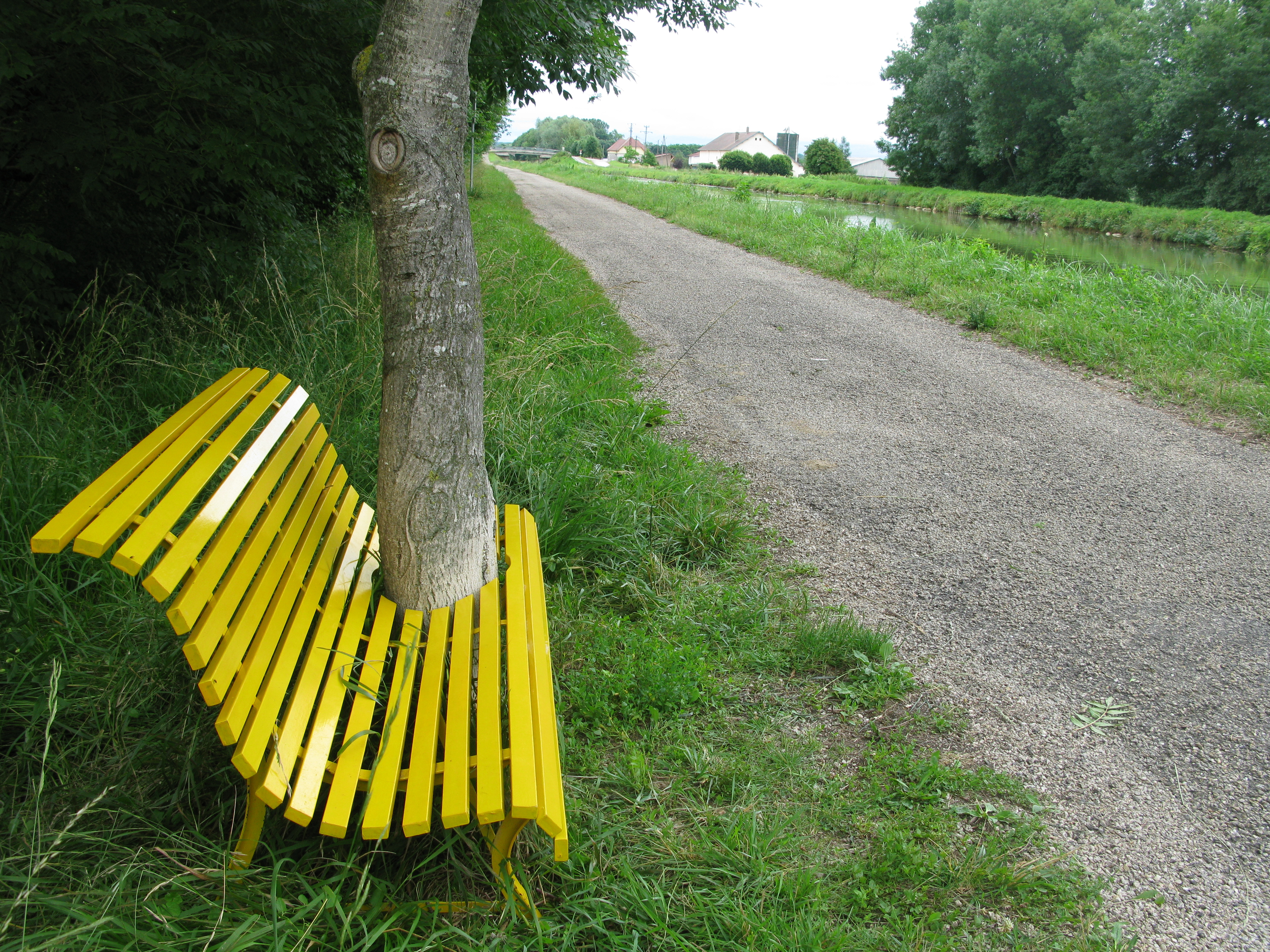 YELLOW BENCH in NATURE